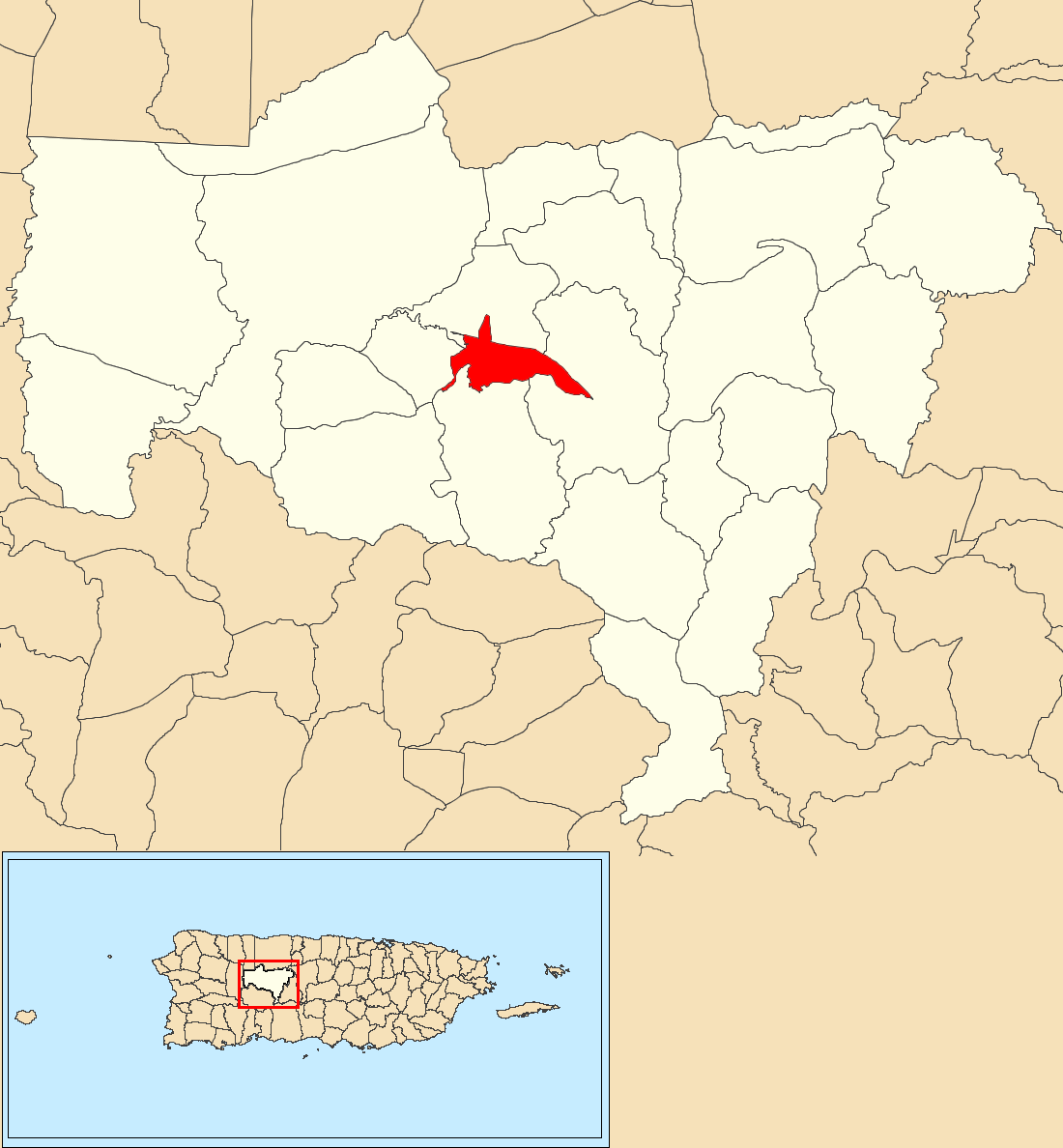 Utuado barrio-pueblo, Utuado, Puerto Rico locator map